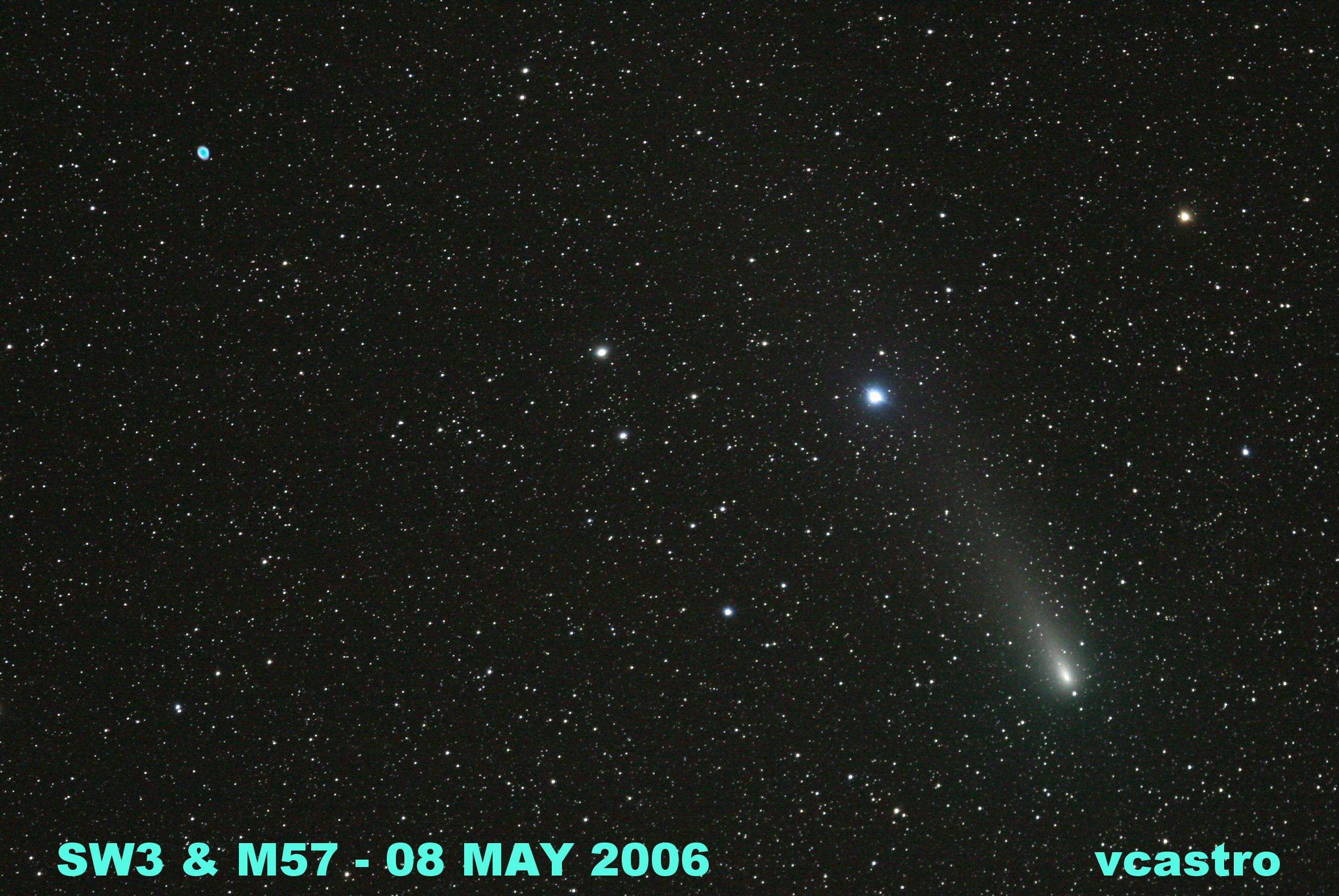 Comet Schwassmann-Wachmann 3 (73P), component C, and Ring Nebula M57, as seen 08 MAY 2006 from Mt Laguna, Calif. The separation between the two objects is 1.45 degrees. 45sec @ f/2.8 @ ISO 1600, Canon 20D, 400mm f/2.8 on Meade LXD55. Paul Martinez & Philip Brents, [1].